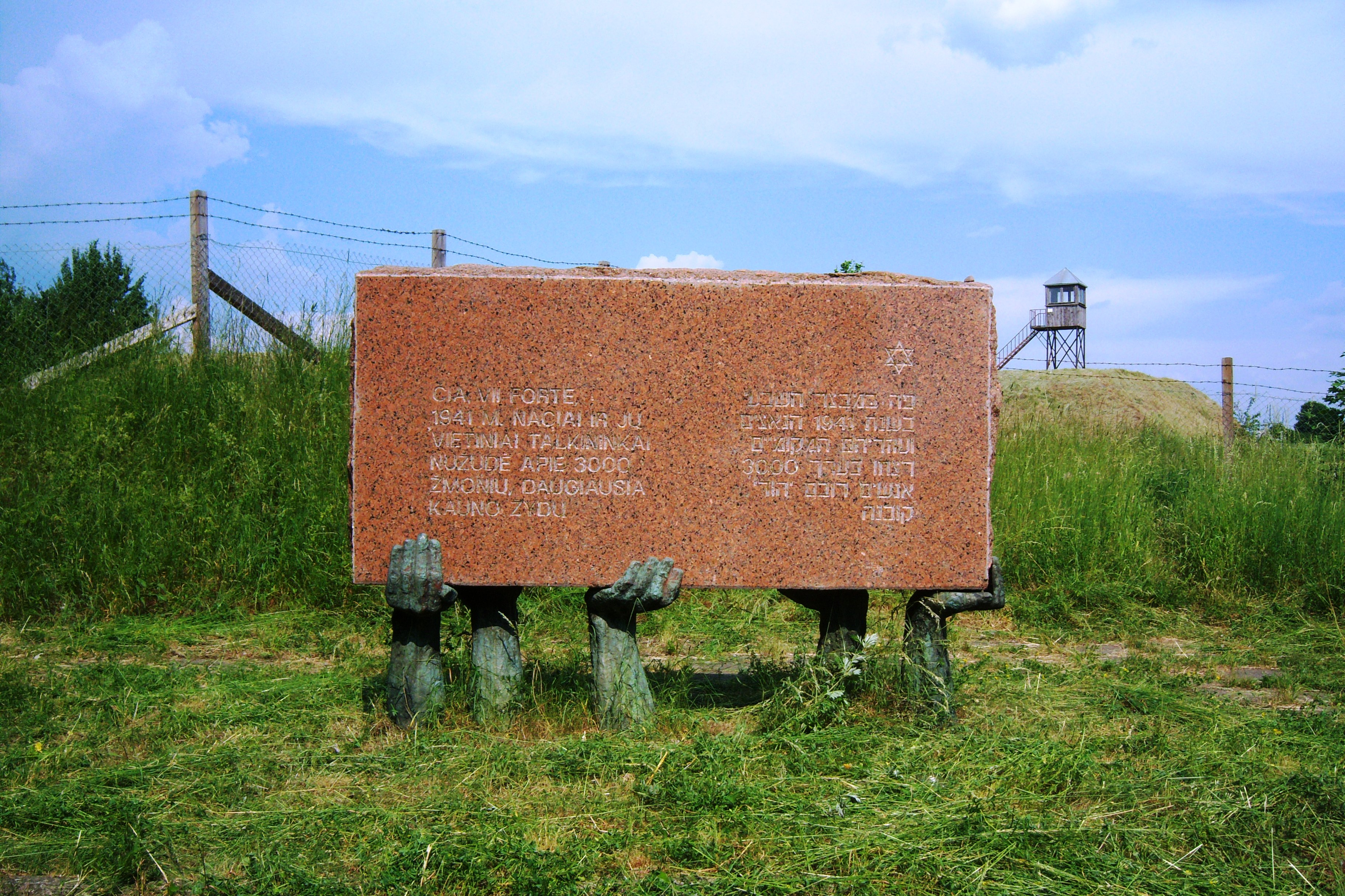 7th Kaunas Fort. Holocaust in 1941: commemoration stone. Lithuania.